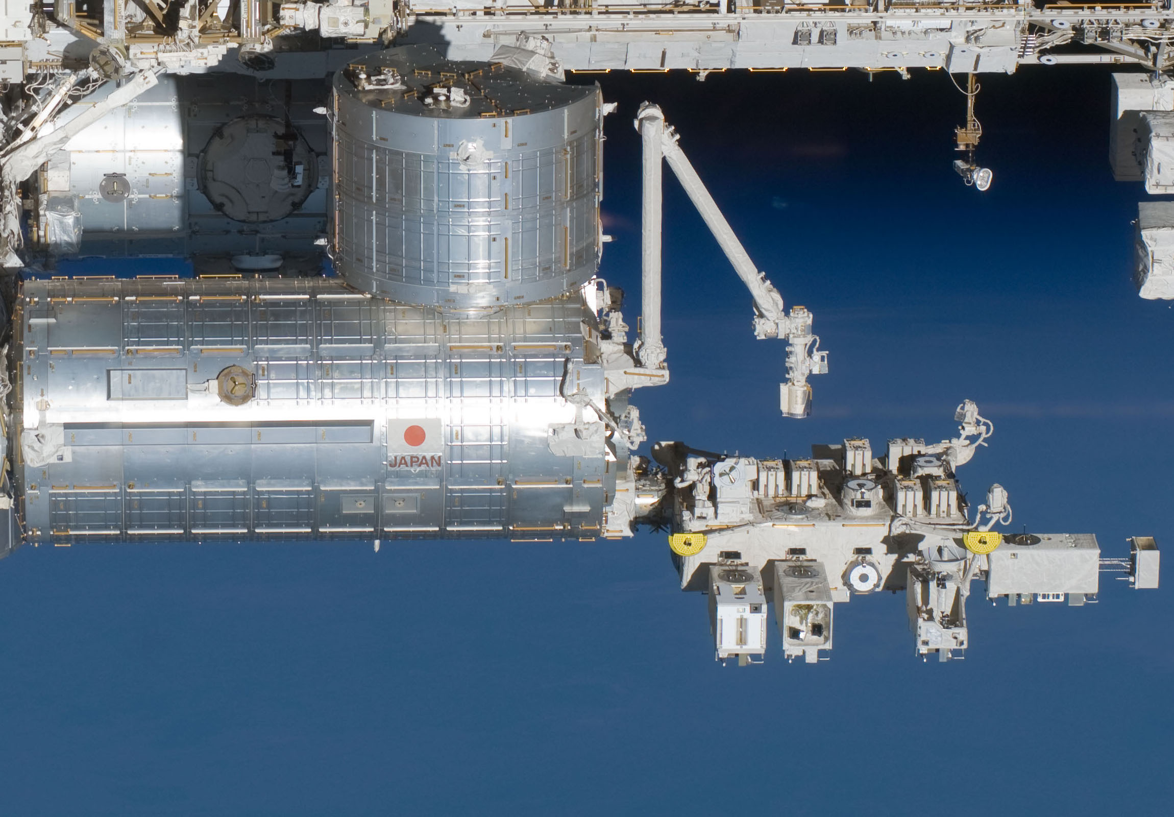 A close-up view of a section of the International Space Station is featured in this image photographed by an STS-134 crew member on the space shuttle Endeavour after the station and shuttle began their post-undocking relative separation. Undocking of the two spacecraft occurred at 11:55 p.m. (EDT) on May 29, 2011. Endeavour spent 11 days, 17 hours and 41 minutes attached to the orbiting laboratory.